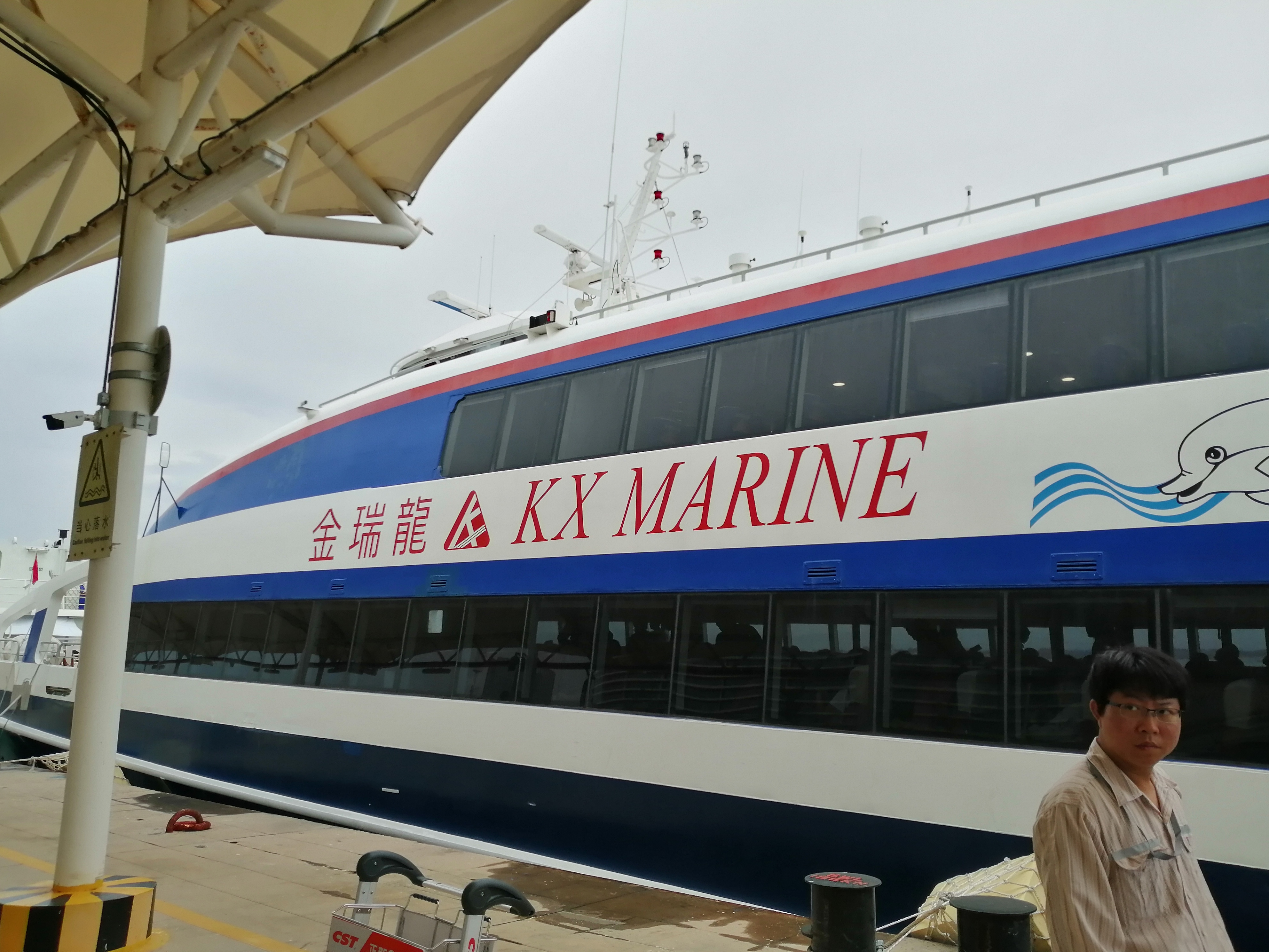 A ship ready to departutre at Wutong Ferry 中文（中国大陆）: 一艘在五通码头准备发船的客轮